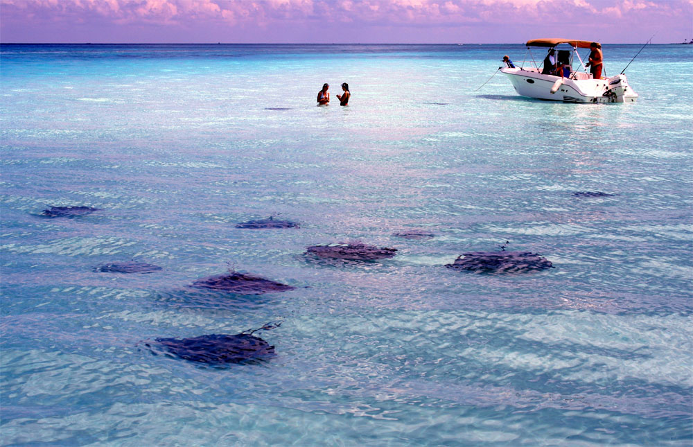 Storm brewing in the horizon Stingrays are very friendly in the Cayman Islands... biggest tourist attraction here. Over 100 stingrays can be found on this sandbar located about 45 mins away from Grand Cayman.